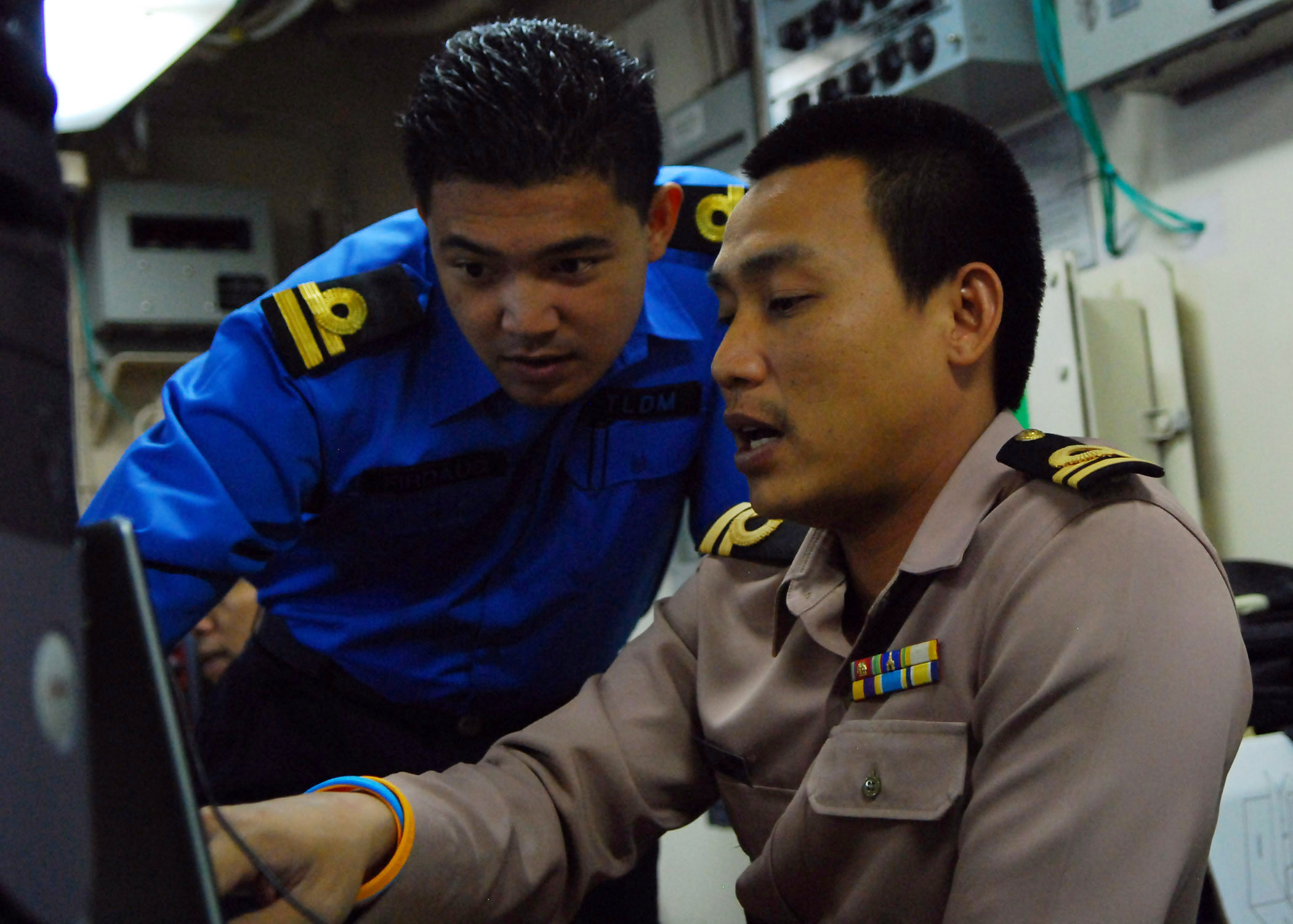 SINGAPORE (Aug. 17, 2009) Naval liaison officers from Malaysia and Thailand coordinate efforts aboard the amphibious dock landing ship USS Harpers Ferry (LSD 49) during a Southeast Asia Cooperation Against Terrorism (SEACAT) 2009 maritime intercept exercise. SEACAT is a weeklong at-sea exercise designed to highlight the value of information sharing and multinational coordination within a scenario that gives participating navies practical maritime interception training opportunities. (U.S. Navy photo by Mass Communication Specialist 1st Class Bill Larned/Released)